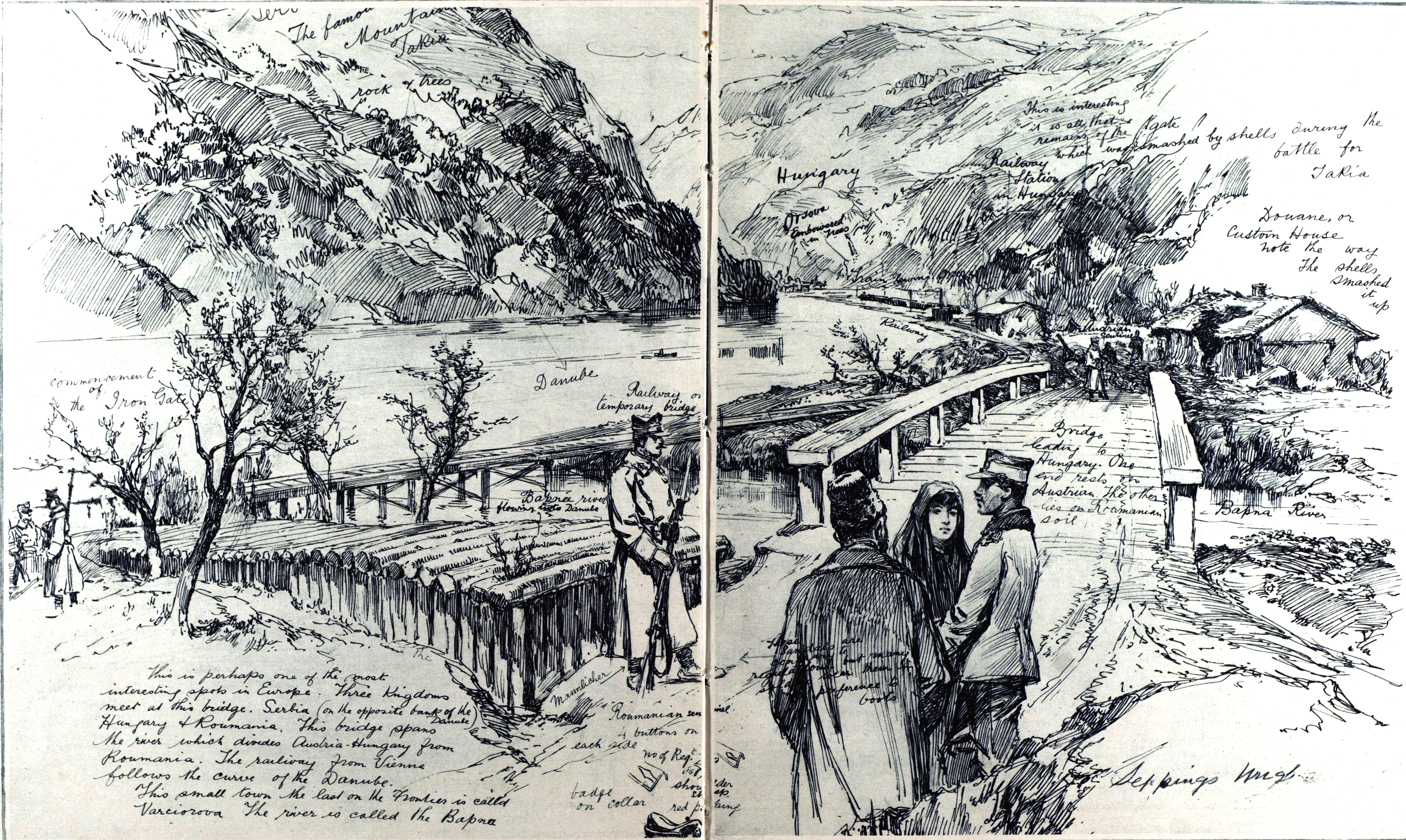 A key position on the Roumanian frontier - Where it meets the frontiers of Austria-Hungary and Serbia